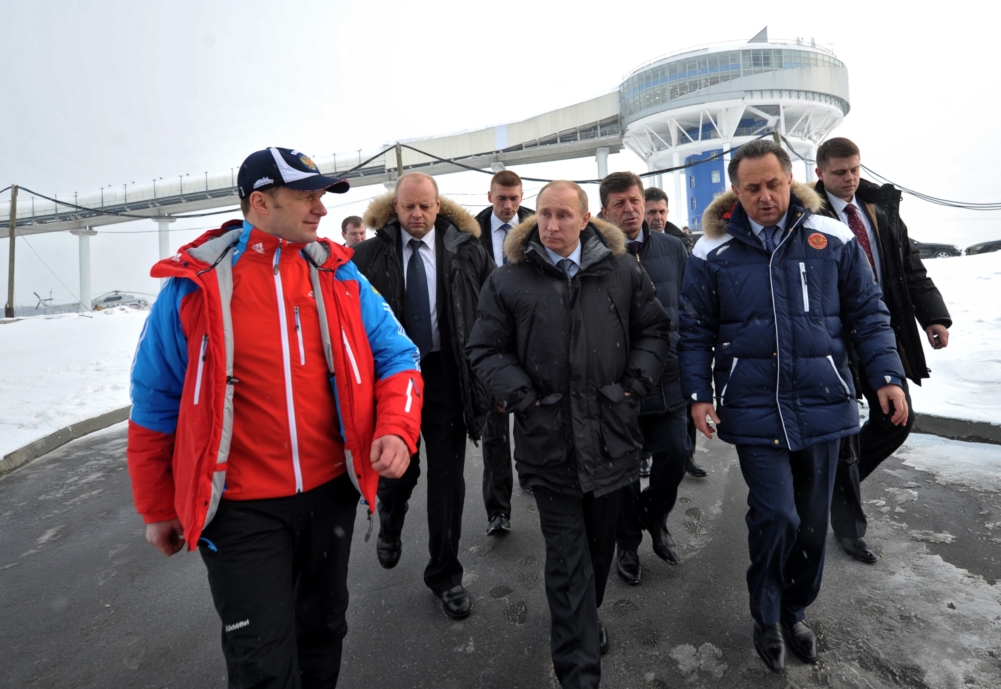 Russian Prime Minister Vladimir Putin visits the bobsleigh, luge and skeleton complex in Paramonovo in the Moscow Region